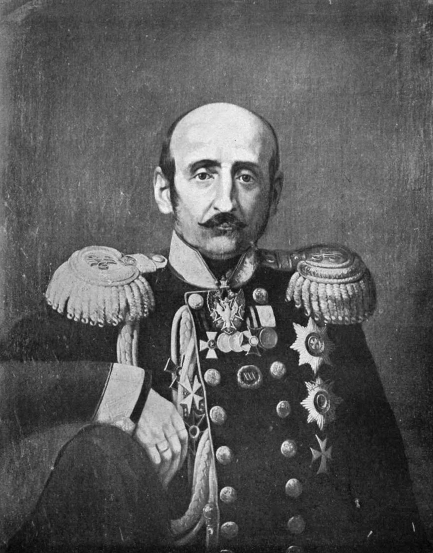 Chevkin, Konstantin Vladimirovich (1803—1875) — general of the infantry of the Russian Imperial Army, and adjutant general.